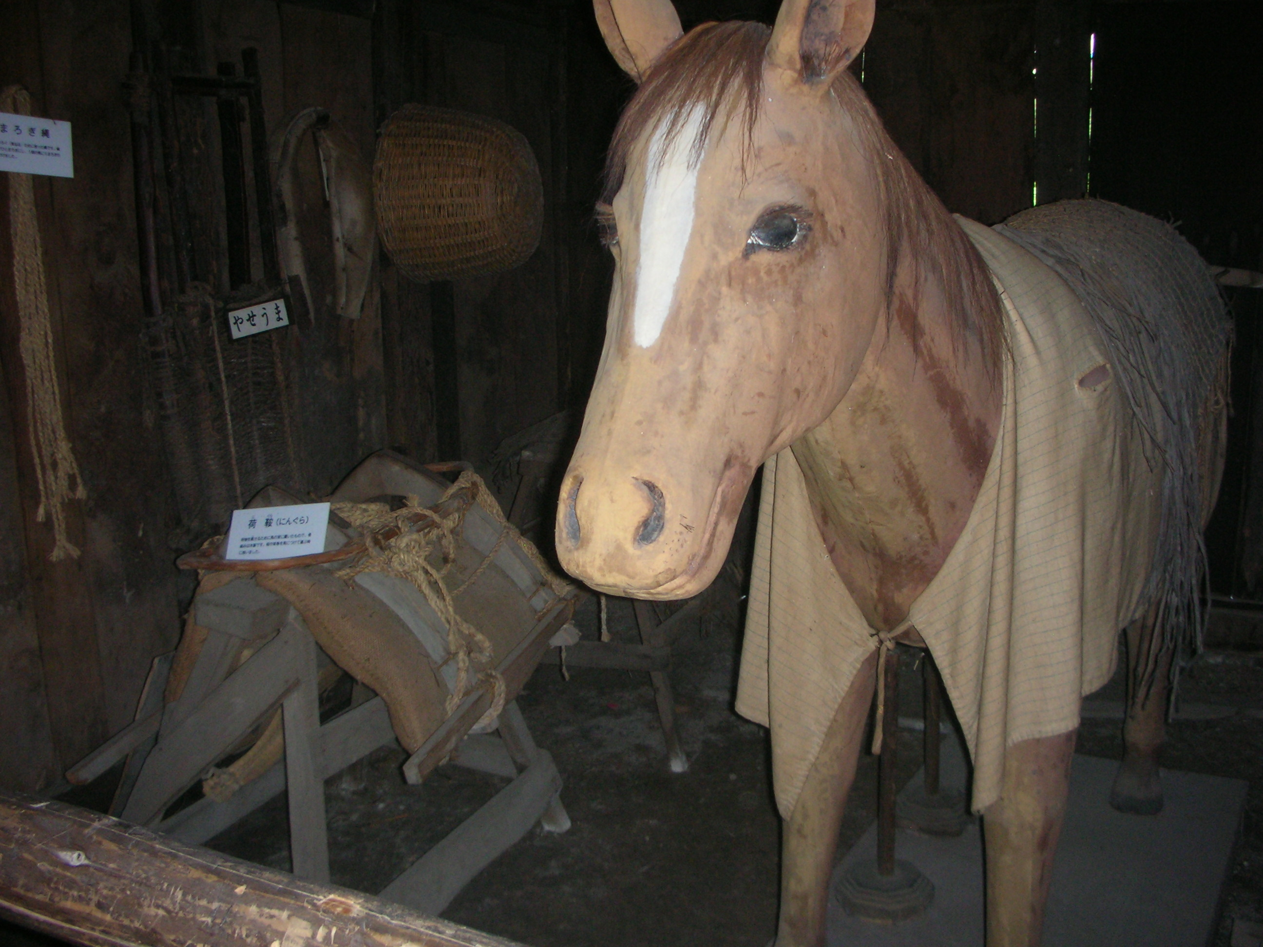 Barn at the Former Ariji Family House in Mogami Town, Yamagata Prefecture, Japan